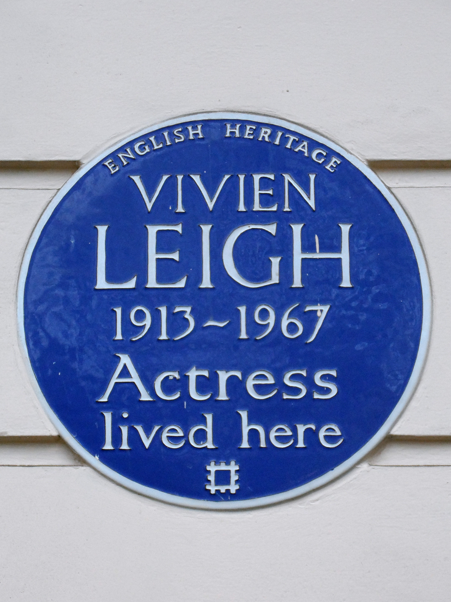 Leigh - 54 Eaton Square Belgravia SW1W 9BE